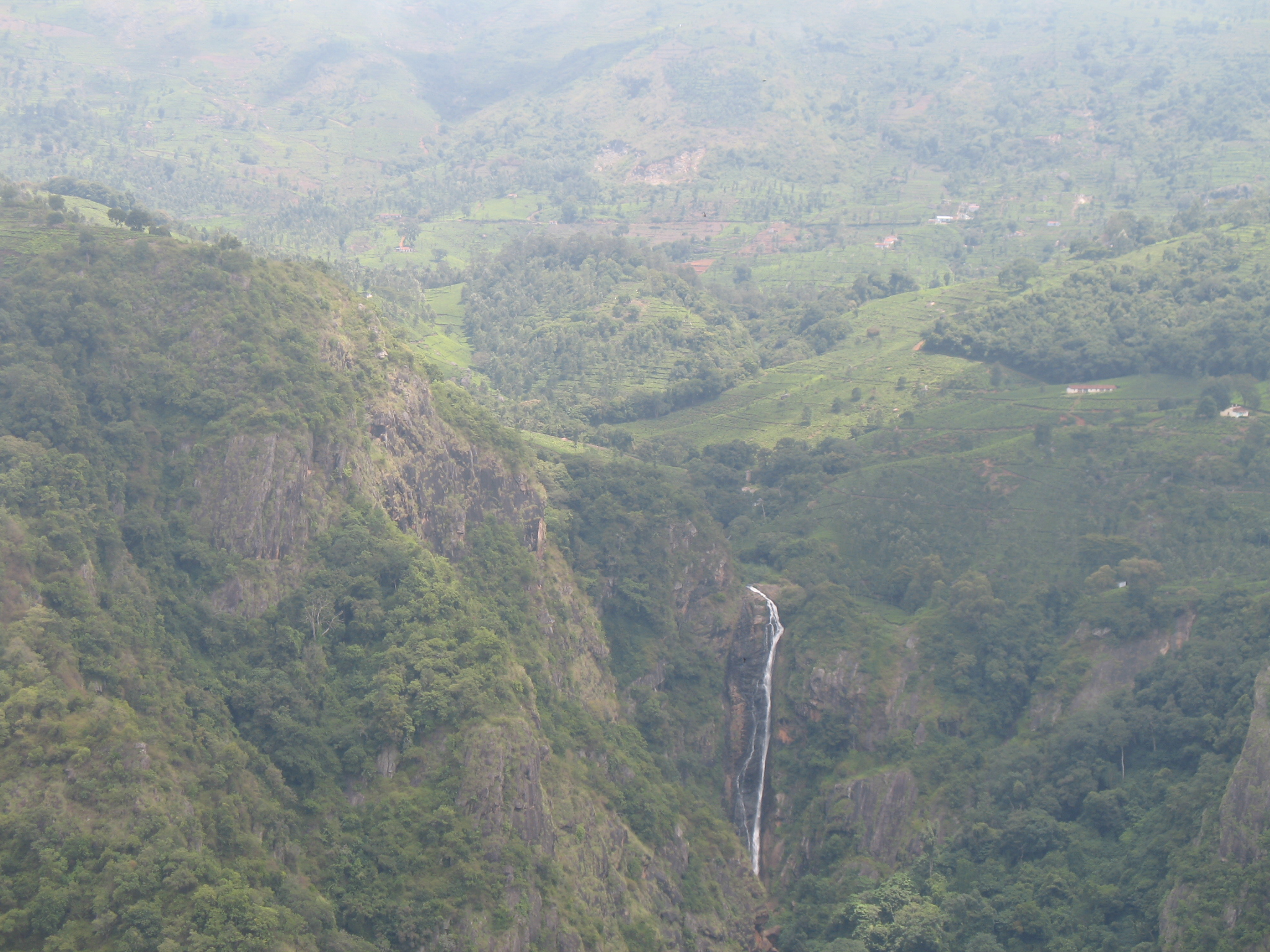 Dolphin's nose view point